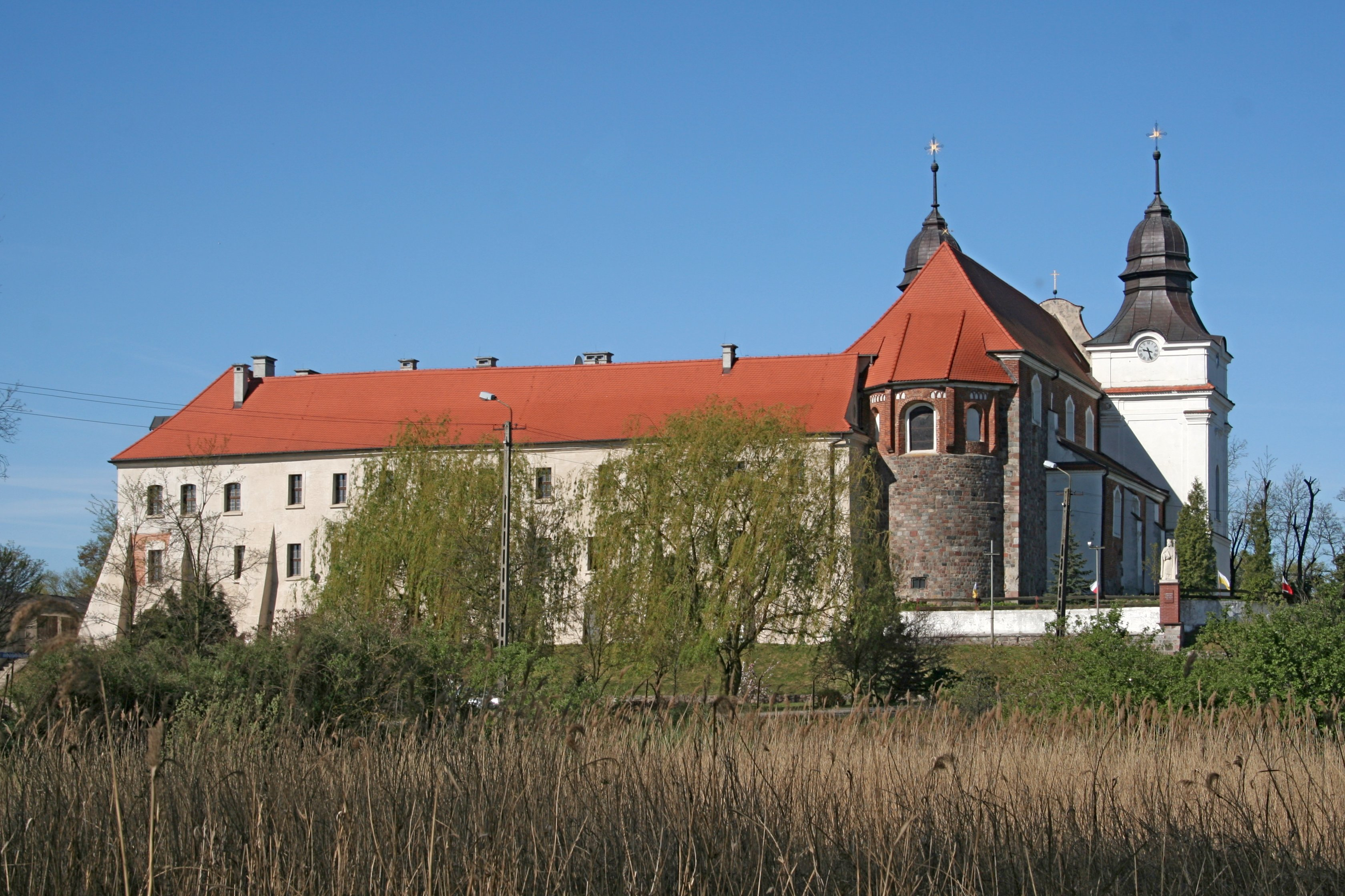 Mogilno, Poland, Benedictine Abbey from east